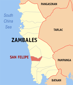 Map of Zambales showing the location of San Felipe